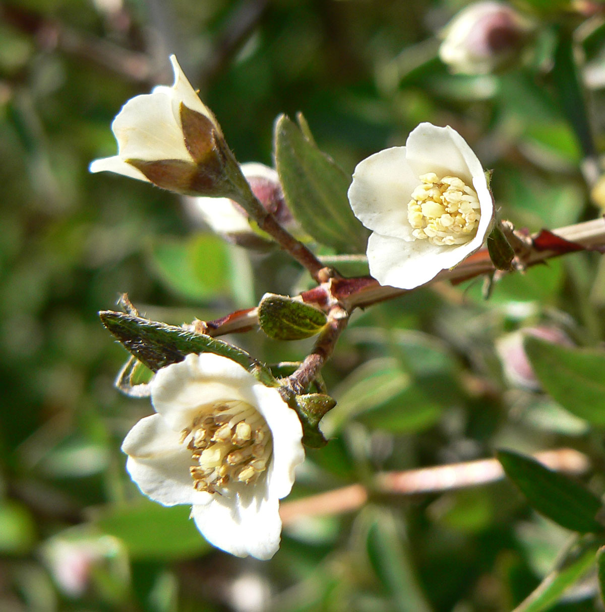 Philadelphus microphyllus in avalanche chute left of the South Loop trail where it ascends out of the chute, Spring Mountains, southern Nevada (elev. about 2700 m)